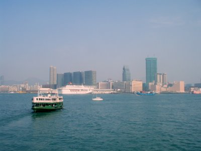 Tsui Sing Yan Eric (rseric) User:rseric From Image:Tstfromcentral.jpg